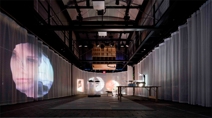 Live Cinema Performance at the BMW Guggenheim Lab with Cheryl Kaplan